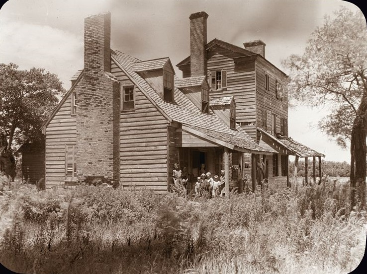 Title [Old Birds' Nest Tavern, Marionville vicinity, Northampton County, Virginia. People on porch] Contributor Names Johnston, Frances Benjamin, 1864-1952, photographer Created / Published [between ca. 1930 and 1939] Subject Headings - Houses--Virginia--Northampton County--1930-1940 - Porches--Virginia--Northampton County--1930-1940 - Dormers--Virginia--Northampton County--1930-1940 - Taverns (Inns)--Virginia--Northampton County--1930-1940 - Families--Virginia--Northampton County--1930-1940 Format Headings Lantern slides--1930-1940. Notes - On slide (handwritten): "Birds Nest, E.S. Northampton." - Slide for lecturing on "Tales Old Houses Tell." - Title and date based on same image in the Carnegie Survey of the Architecture of the South, LC-J7-VA-2241, with additional information from Sam Watters, 2011. - Forms part of: Garden and historic house lecture series in the Frances Benjamin Johnston Collection (Library of Congress). - Formerly in Box 30. Medium 1 photograph : glass lantern slide, sepia-toned ; 3.25 x 4 in. Call Number/Physical Location LC-J717-X106- 41 [P&P] Repository Library of Congress Prints and Photographs Division Washington, D.C. 20540 USA Digital Id ppmsca 16611 //hdl.loc.gov/loc.pnp/ppmsca.16611 Library of Congress Control Number 2008675911 Reproduction Number LC-DIG-ppmsca-16611 (digital file from original item) Rights Advisory No known restrictions on publication. Online Format image Description 1 photograph : glass lantern slide, sepia-toned ; 3.25 x 4 in. LCCN Permalink